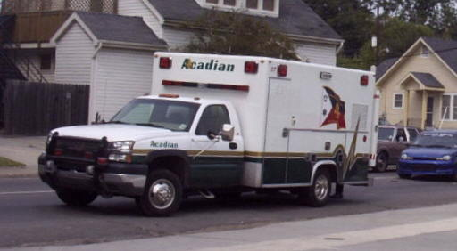 The Acadian Ambulance while at the scene of an emergency. Notice the rear is lower than the front. All Acadian Ambulance units have a "kneeling" suspension manufactured by Air Lift Company that lowers when the unit's back doors are open to facilitate loading patients.